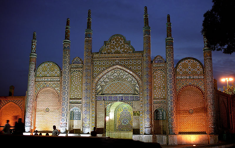 The 19th century gate to the Imamzadeh-ye Hossein, Qazvin, Iran.